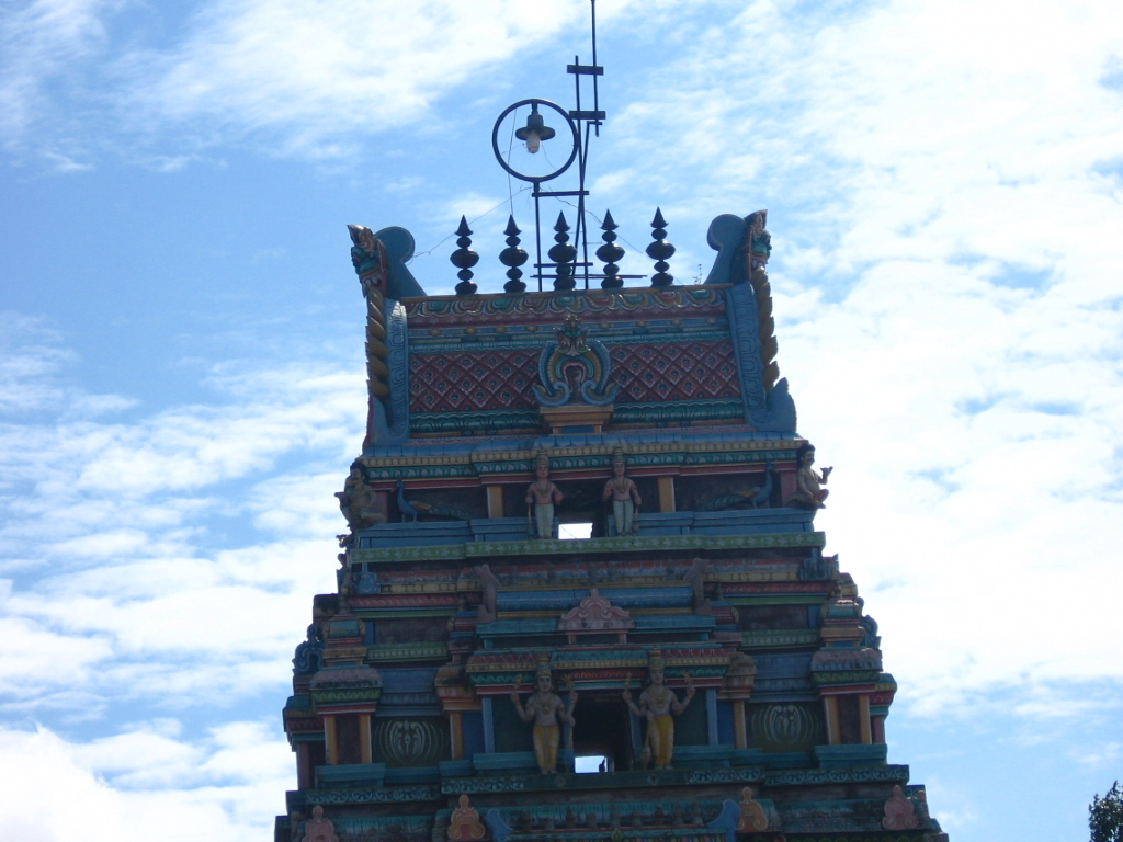 Kurinji Andavar Temple in Kodaikanal, Tamil Nadu, India